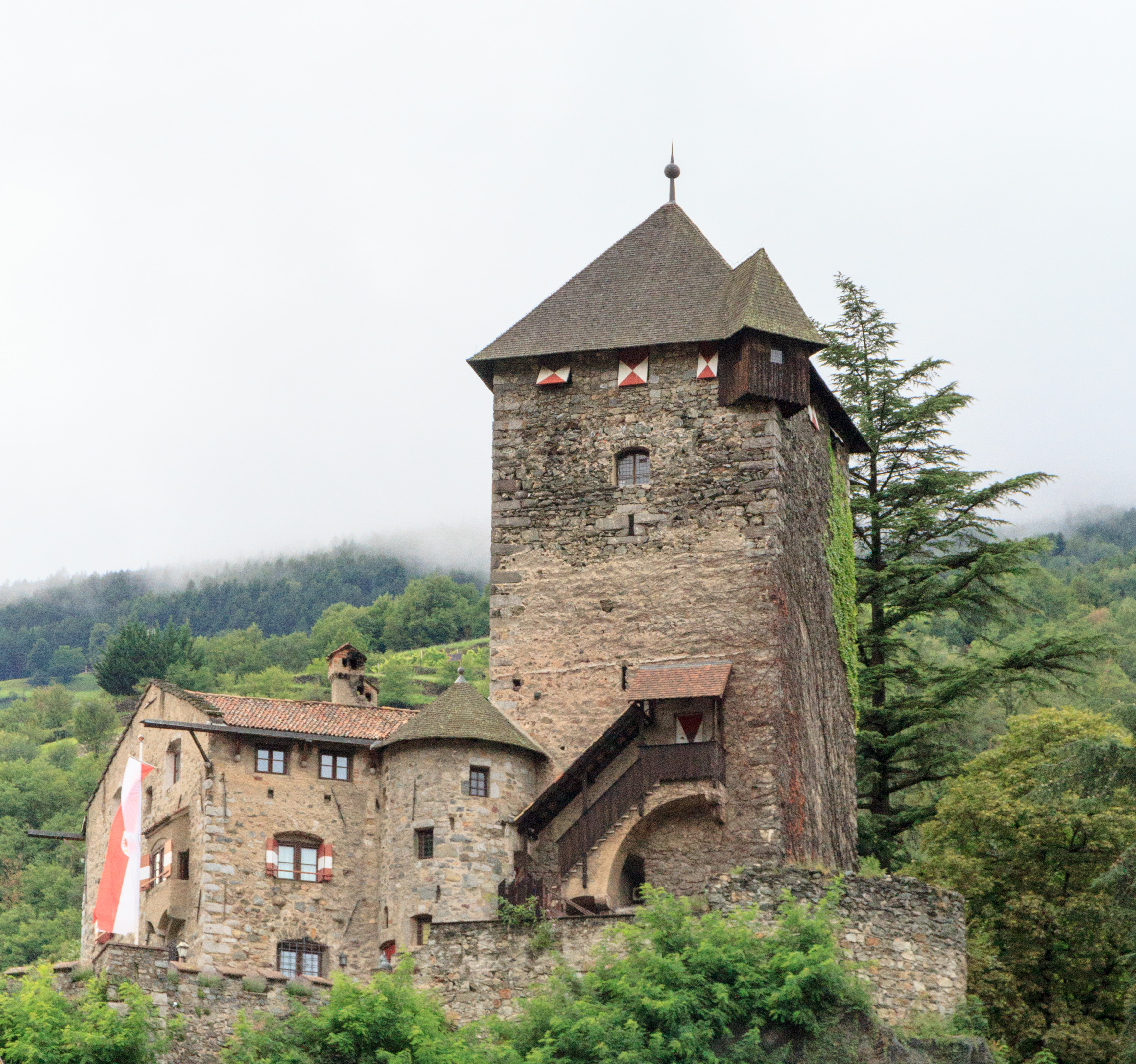 Branzoll Castle, South Tyrol